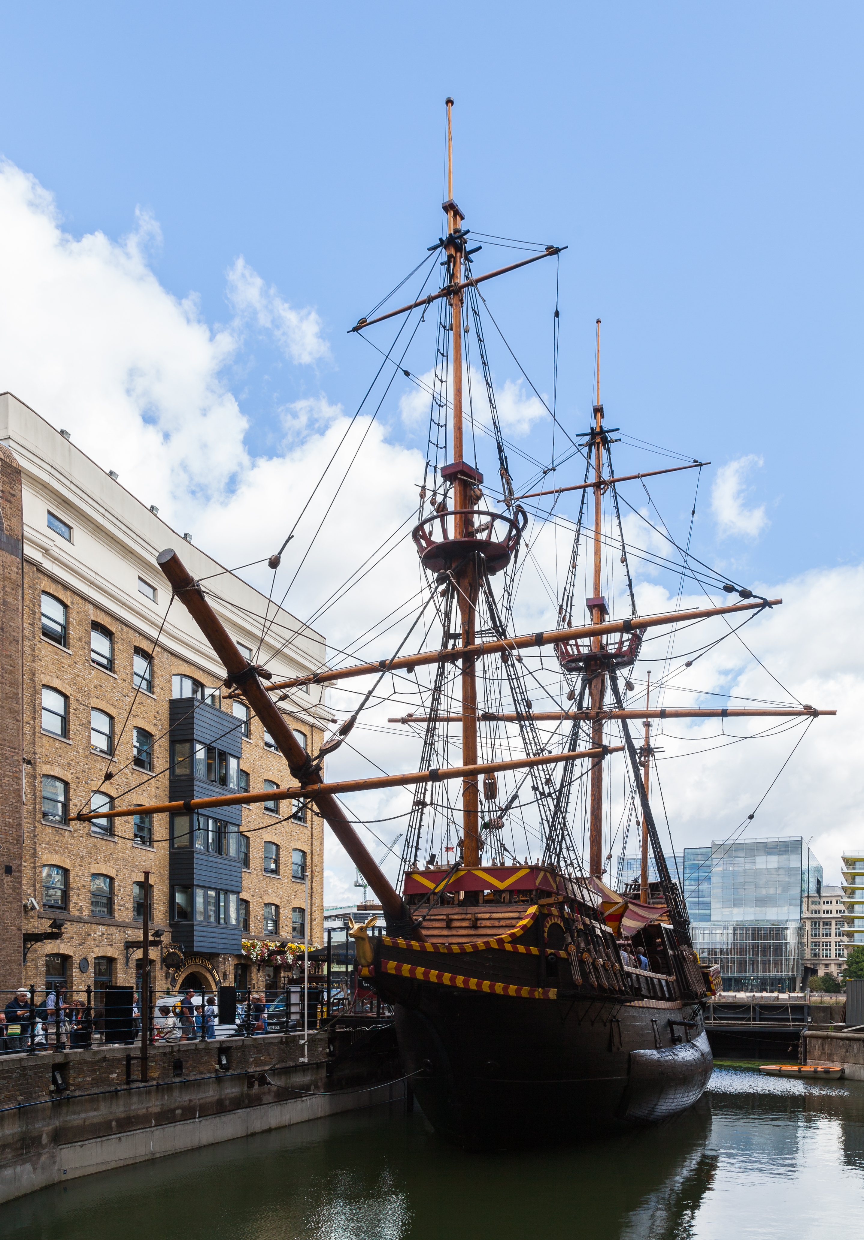 Golden Hinde, London, England